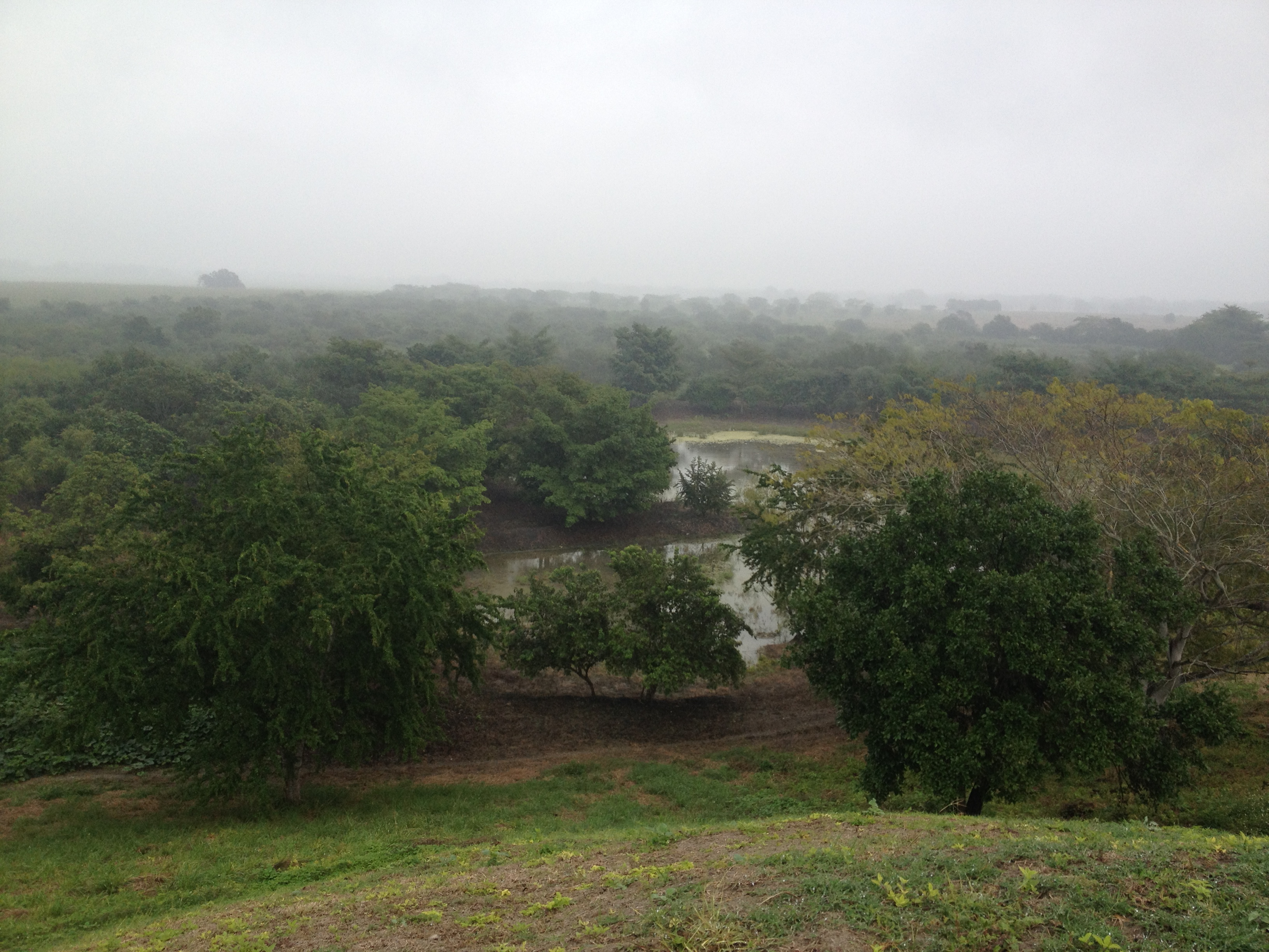 Gran Laguna de los Patos